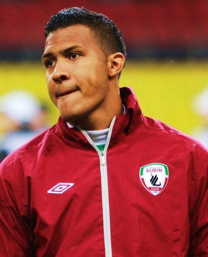 José Salomón Rondón Giménez